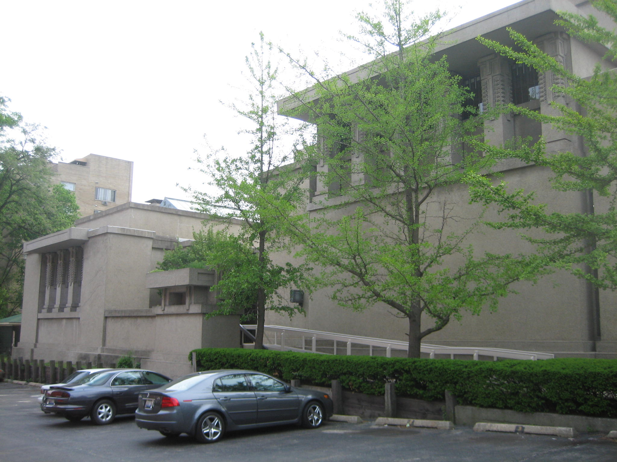 Unity Temple, designed by Frank Lloyd Wright. Oak Park, Illinois, National Historic Landmark.